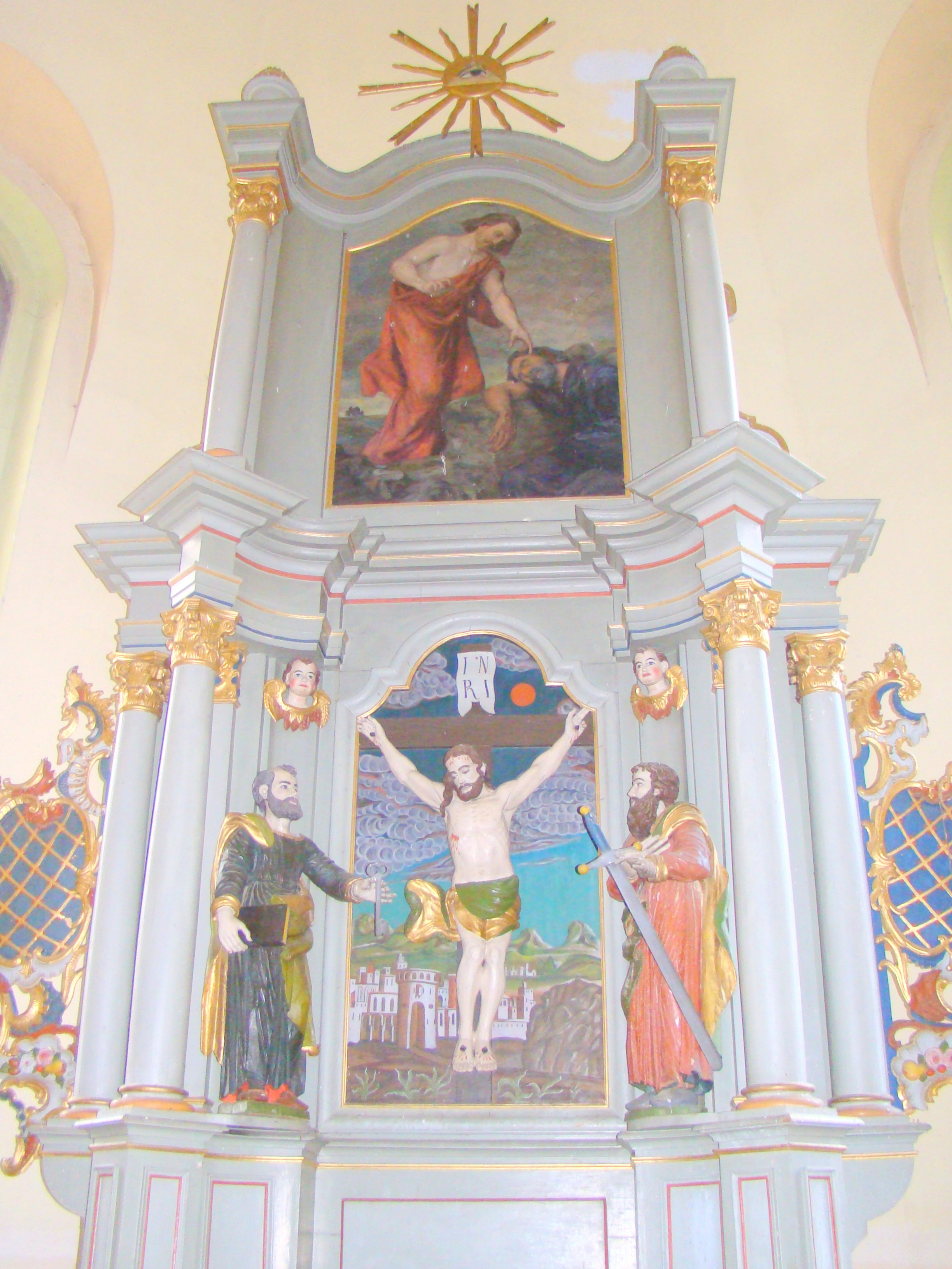 Lutheran church in Stejărenii, Mureș county, Romania